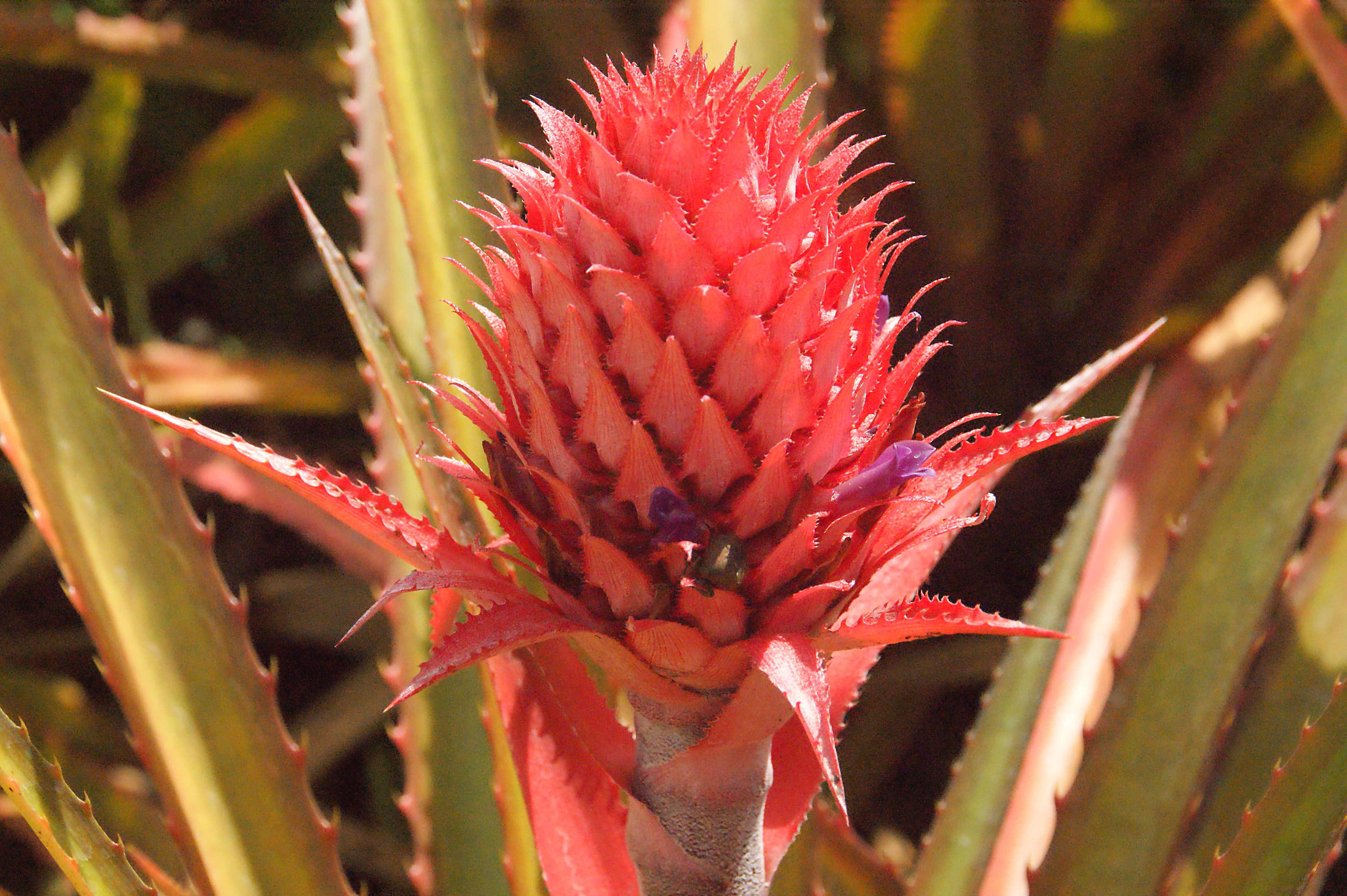 Flower Ananas bracteatus (Photo taken at Dole Plantation, Oahu)